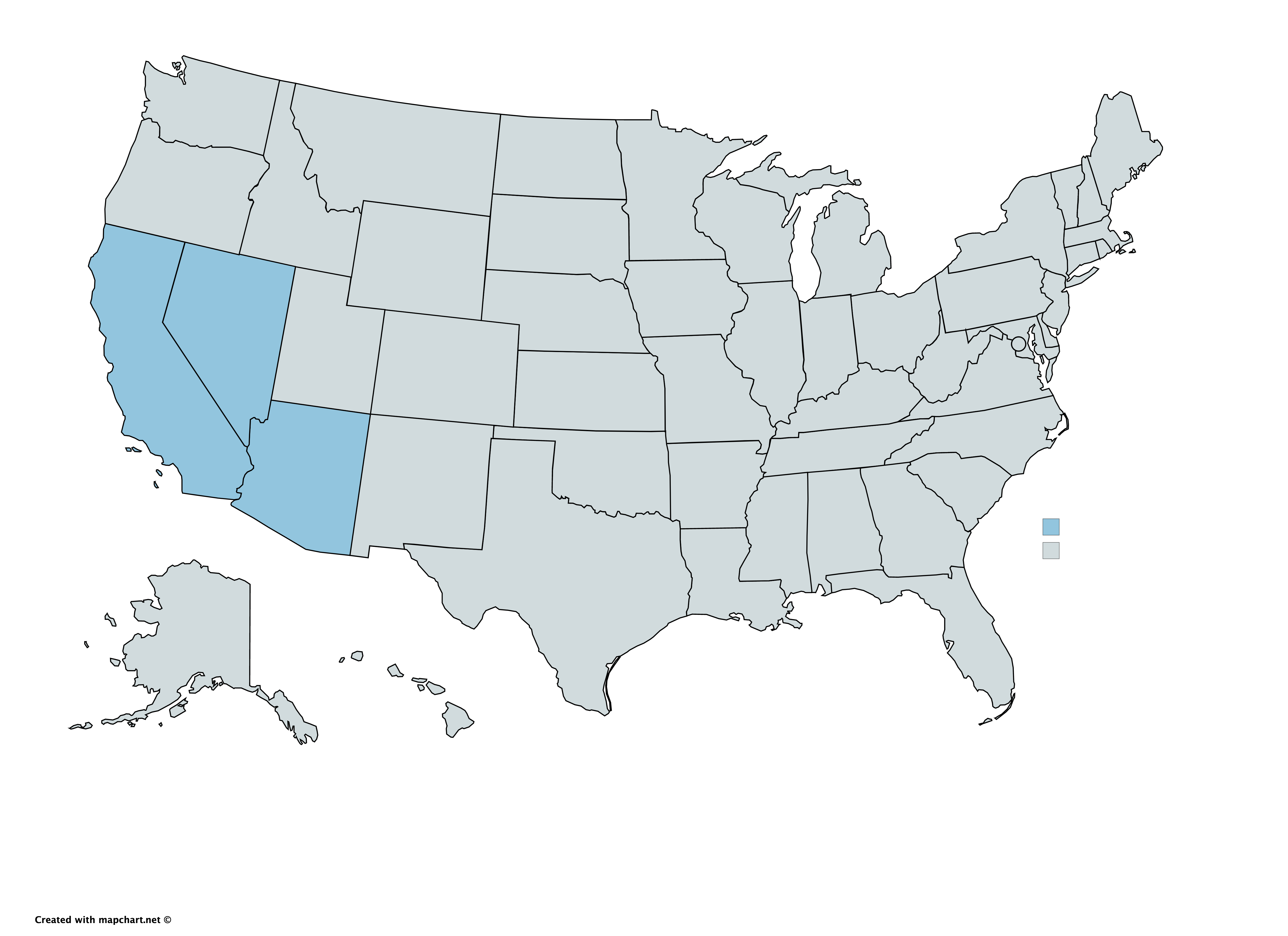 Generated from